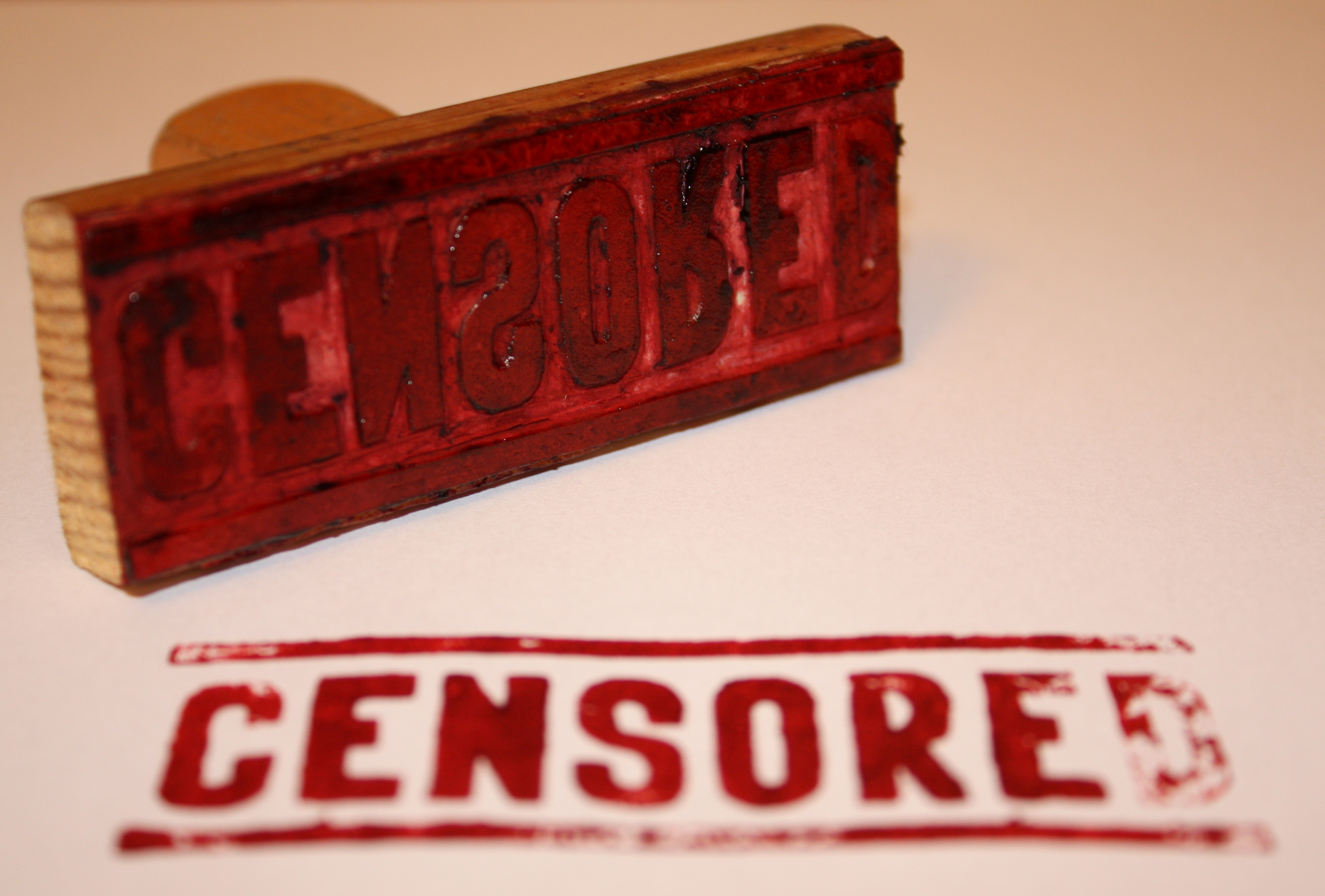 "Censored" rubber stamp